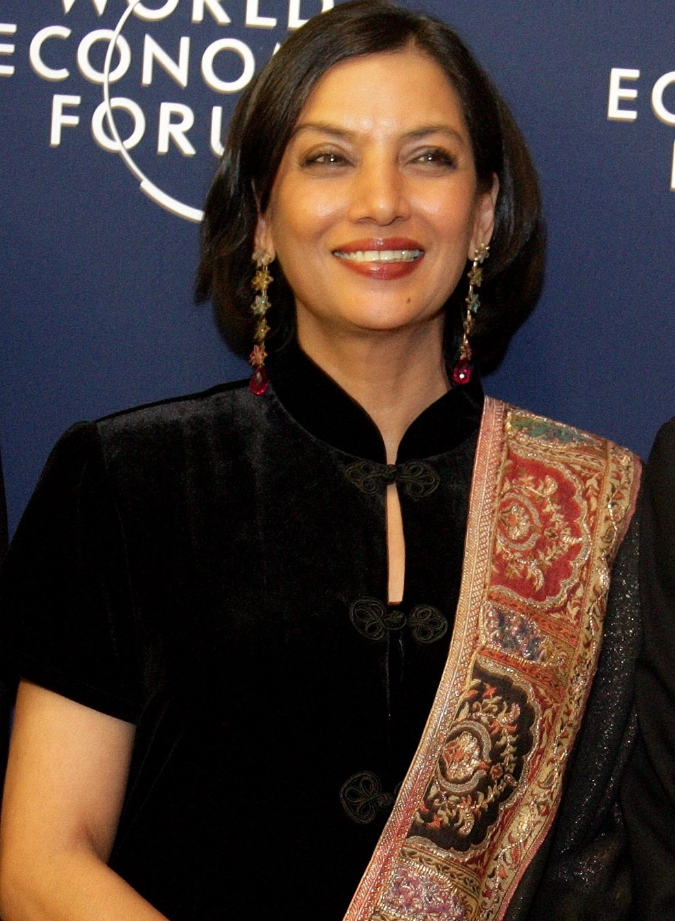 Bollywood actress Shabana Azmi at the 2006 World Economic Forum in Davos. The file is a cropped version of the File:Ali, Azmi, Douglas, Gil.jpg.